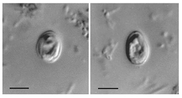 Nomarski interference contrast photomicrographs of Cryptosporidium muris from the feces of an HIV-positive human. Scale bars = 5 micrometer.